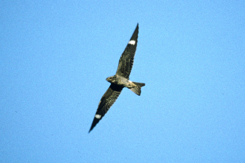 female Montezuma National Wildlife Refuge